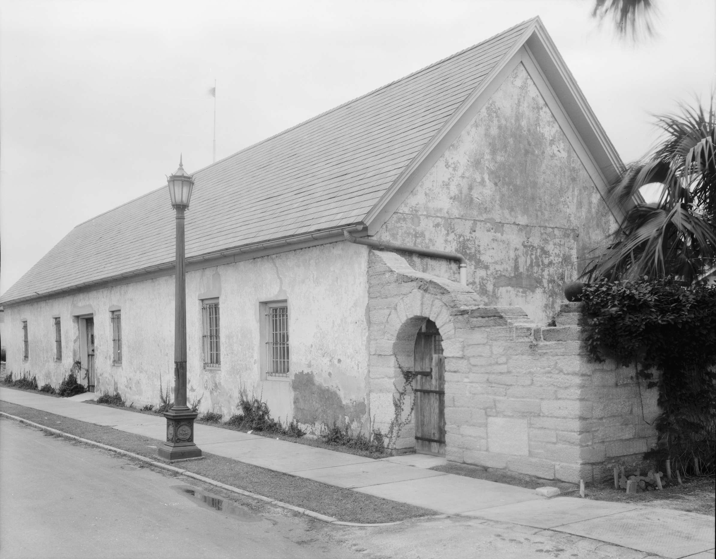 Text from on-site historical marker: "This is the only known building with its origin in the British Period that exists in St. Augustine. Until Marine Street was developed, the Bakery was contiguous with the St. Francis Barracks property. The British converted and expanded the Spanish Convento de San Francisco into their Barracks including the construction of this Bakery and storeroom. The coquina stone construction and stucco finish are typical of St. Augustine's Colonial building pattern and thick masonry construction functions to keep the building dark and cool. Alterations over time served other uses including a military hospital, storehouse, and office for the National Cemetery."